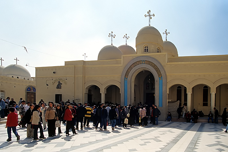 Façade of the Abu Seifein church, Deir el-Azab, el-Fayyum, Egypt